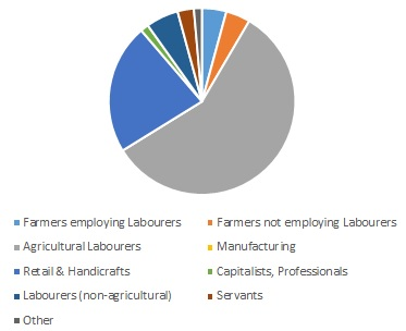 A pie chart showing the occupations of males living in Ousden in 1831